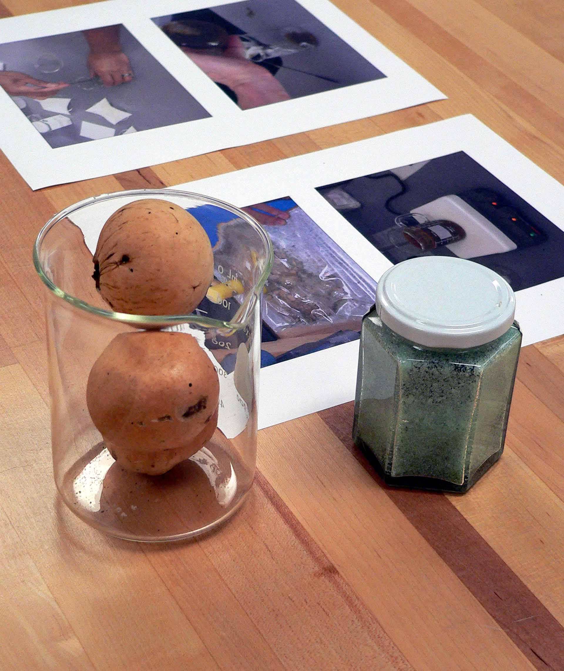 Two oak galls in a beaker and a jar of iron(II) sulfate, ingredients of iron gall ink. The papers on the table are instructions for making the ink. Photograph taken at the California State Archives, 1020 "O" Street, Sacramento, California, USA.